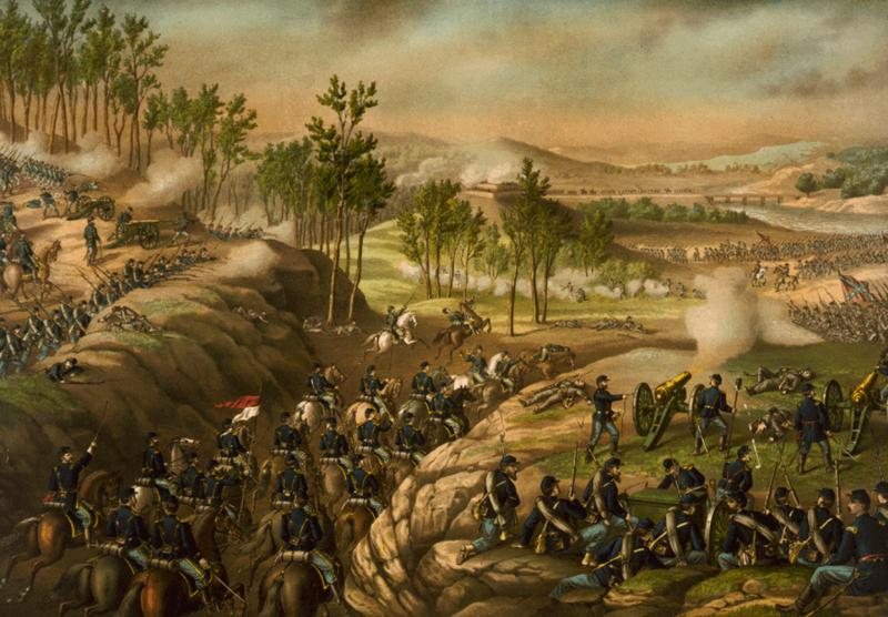 Battle of Resaca - May 13 to 15, 1864, fought in Gordon and Whitfield counties Georgia.